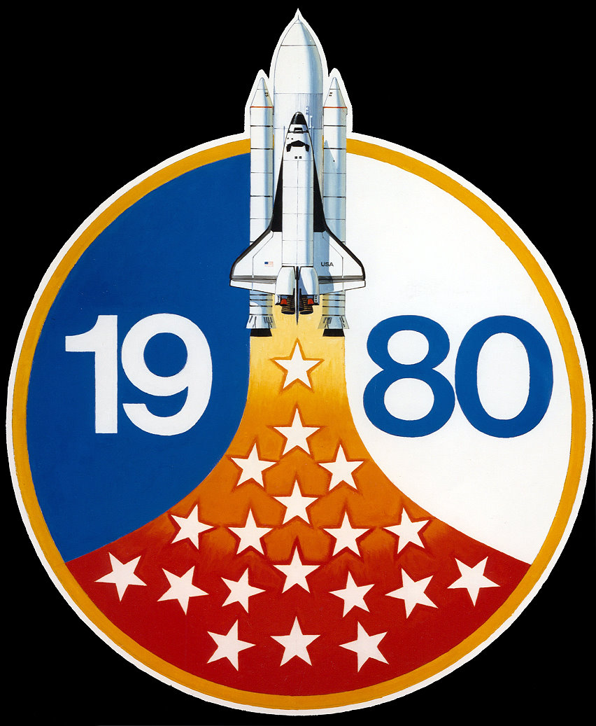 The class patch of NASA Astronaut Group 9.